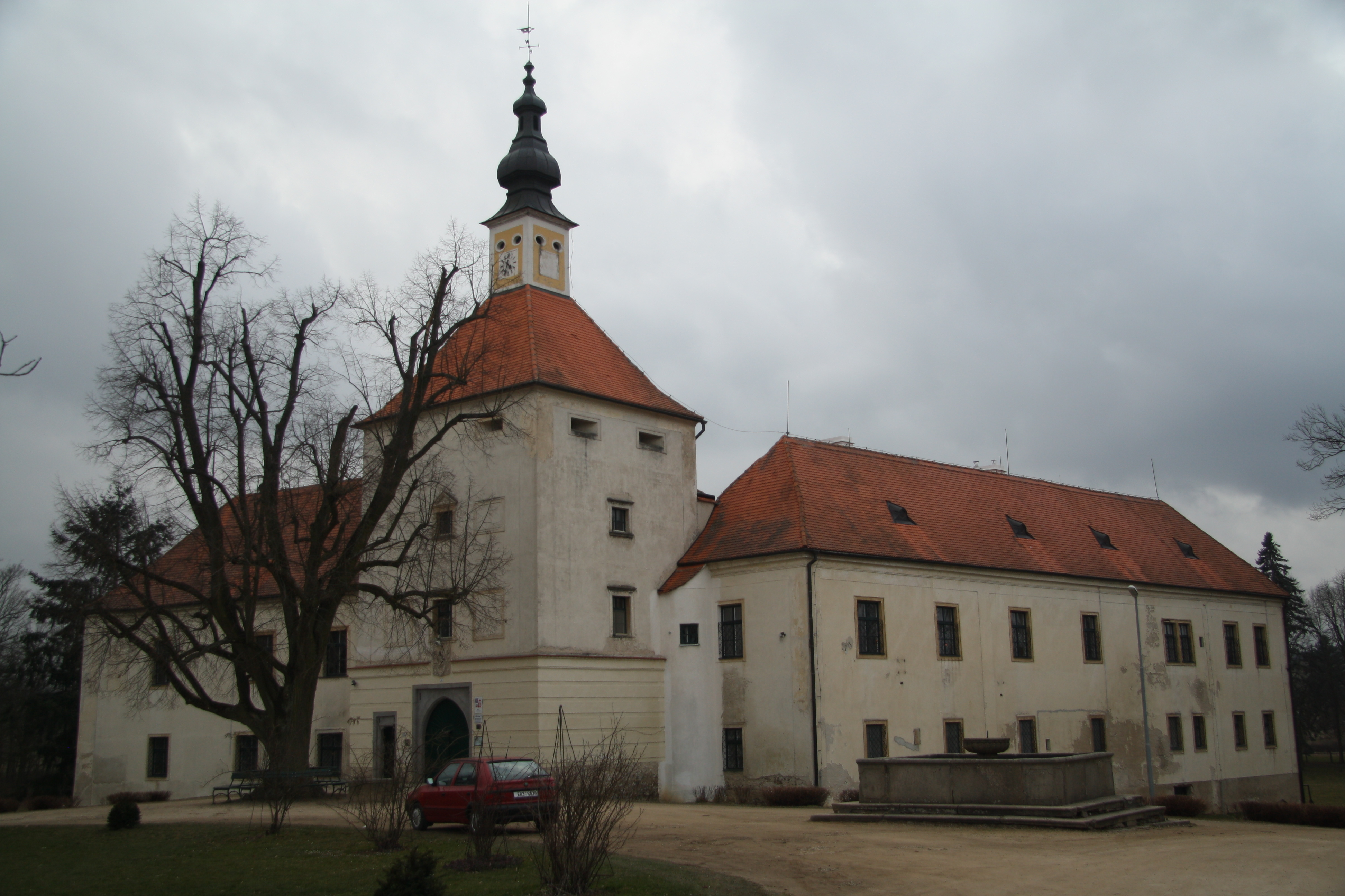 Overview of Budkov Chateau in Budkov, Třebíč District.